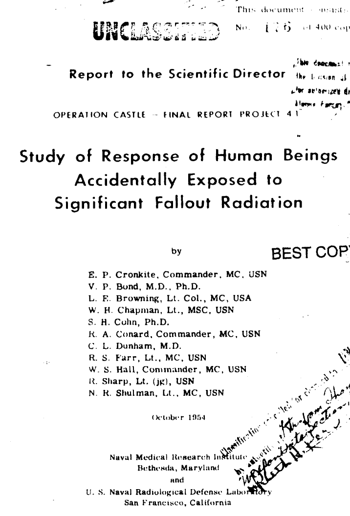 The cover page of the Project 4.1 final report.